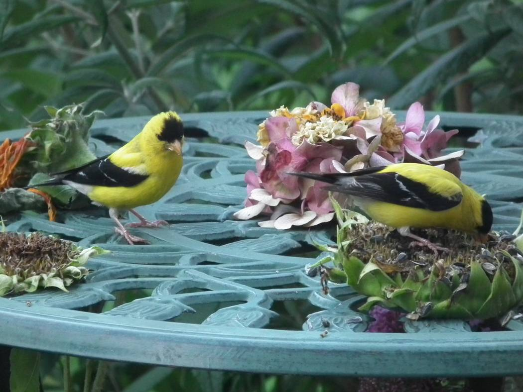 Two American Goldfinches enjoying sunflower heads